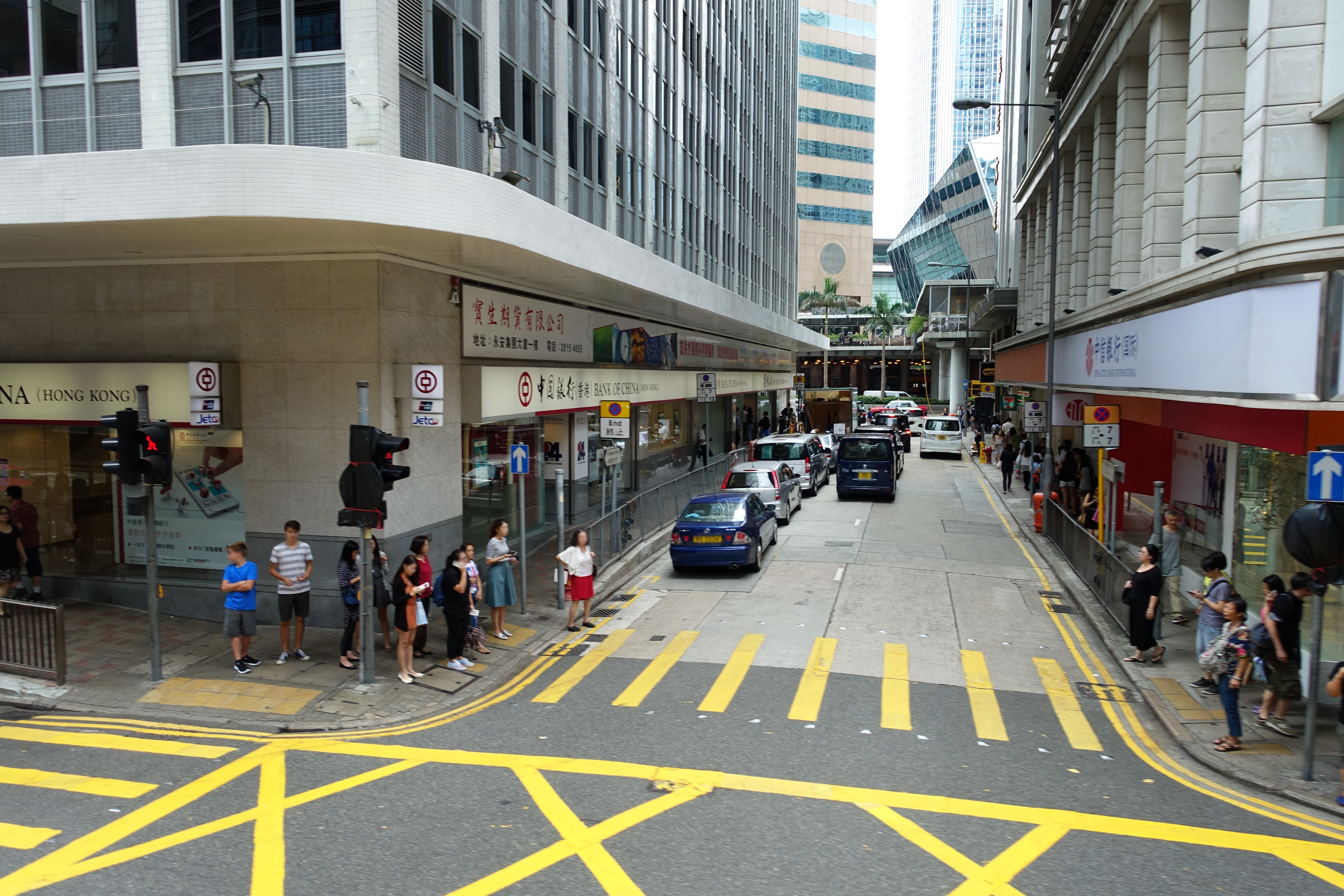 Pottinger Street and Des Voeux Road Central, Central, Hong Kong.